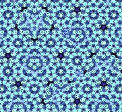 Atomic model of fivefold icosahedral-Al-Pd-Mn quasicrystal surface.